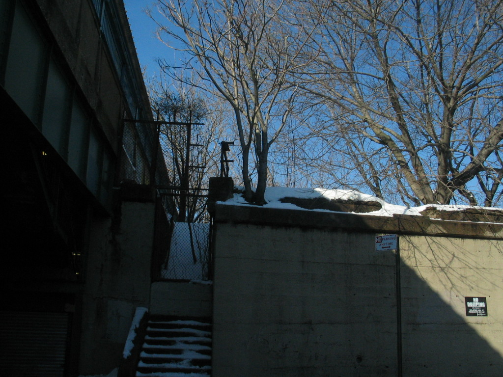 This is a staircase leading from the street level to the Northbound platform of Gravesend Neck Road Station. The staircase is partitioned by a concrete slab with fence, because it is not in use. It was in active use when there was no NYC subway on Brighton Line tracks. At that time, there was another commuter train operator with another proof of payment.